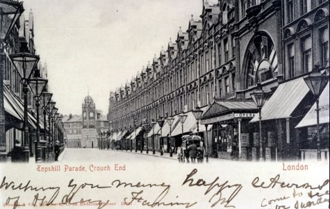 Topshill Parade, Crouch End c. 1900. Streetscape showing the Queen's Opera House, Crouch End, circa 1900 Description Photograph of a black and white postcard showing part of the façade of the Queen’s Opera House, formerly the Crouch End Hippodrome, within a streetscape of Topshill Parade (now called Topsfield Parade) in Crouch End, London. The theatre appears towards the right hand side of the postcard with its canopy below a large semi-circular window feature that distinguishes it from the line of identical buildings either side. The canopy bears the name of the theatre, and QUEEN’S CLUB appears stencilled onto the central window above. Advertising signage is visible at street-level.